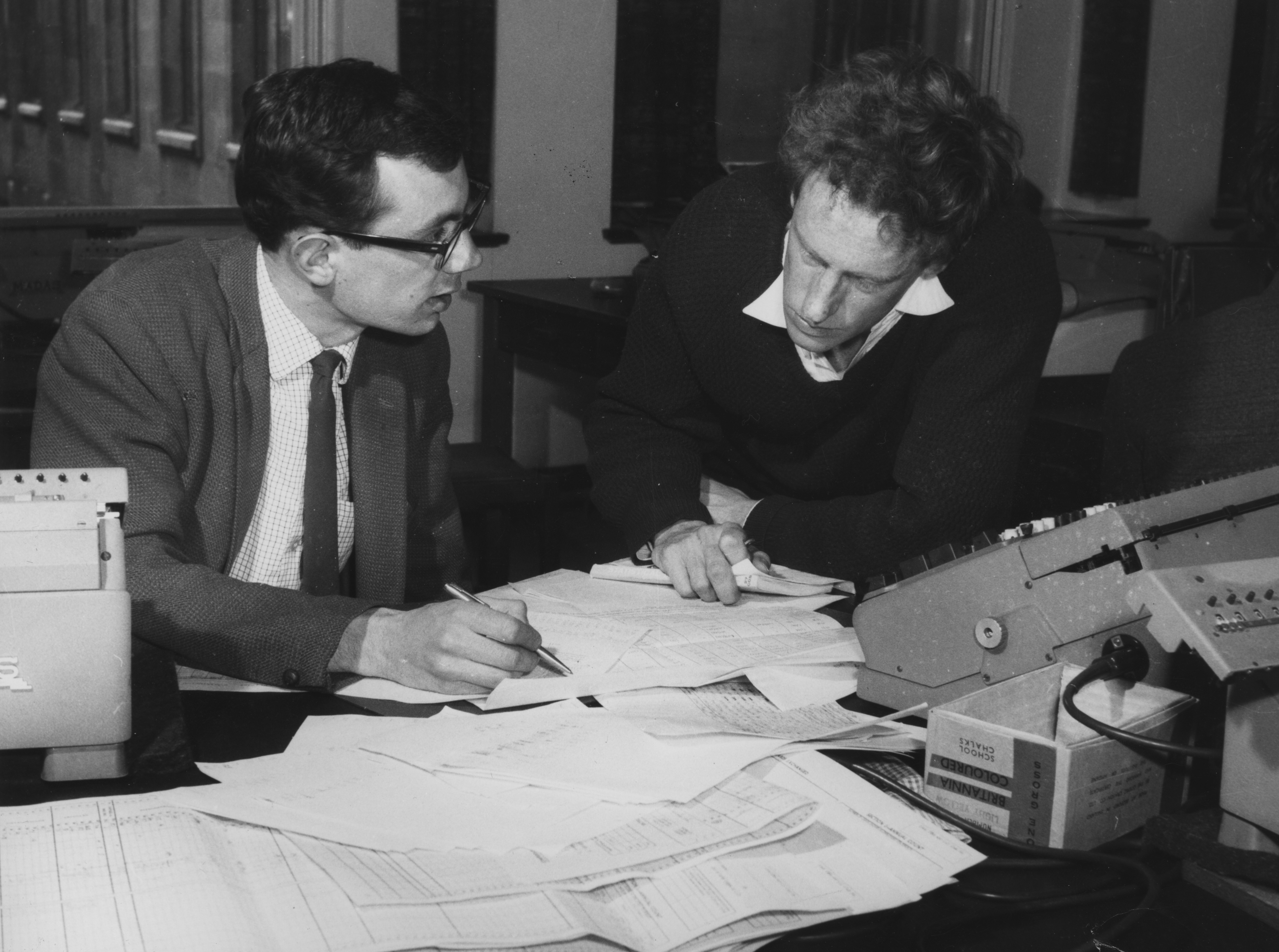 Research students Mr Button and Mr Kerner. Photograph taken during the making of a BBC documentary. IMAGELIBRARY/159 Persistent URL